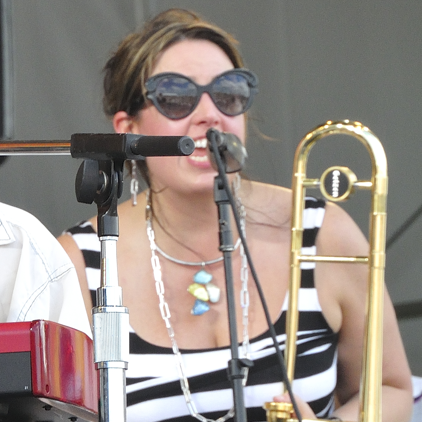 Dr. John & The Lower 911 - New Orleans Jazz & Heritage Festival 2012